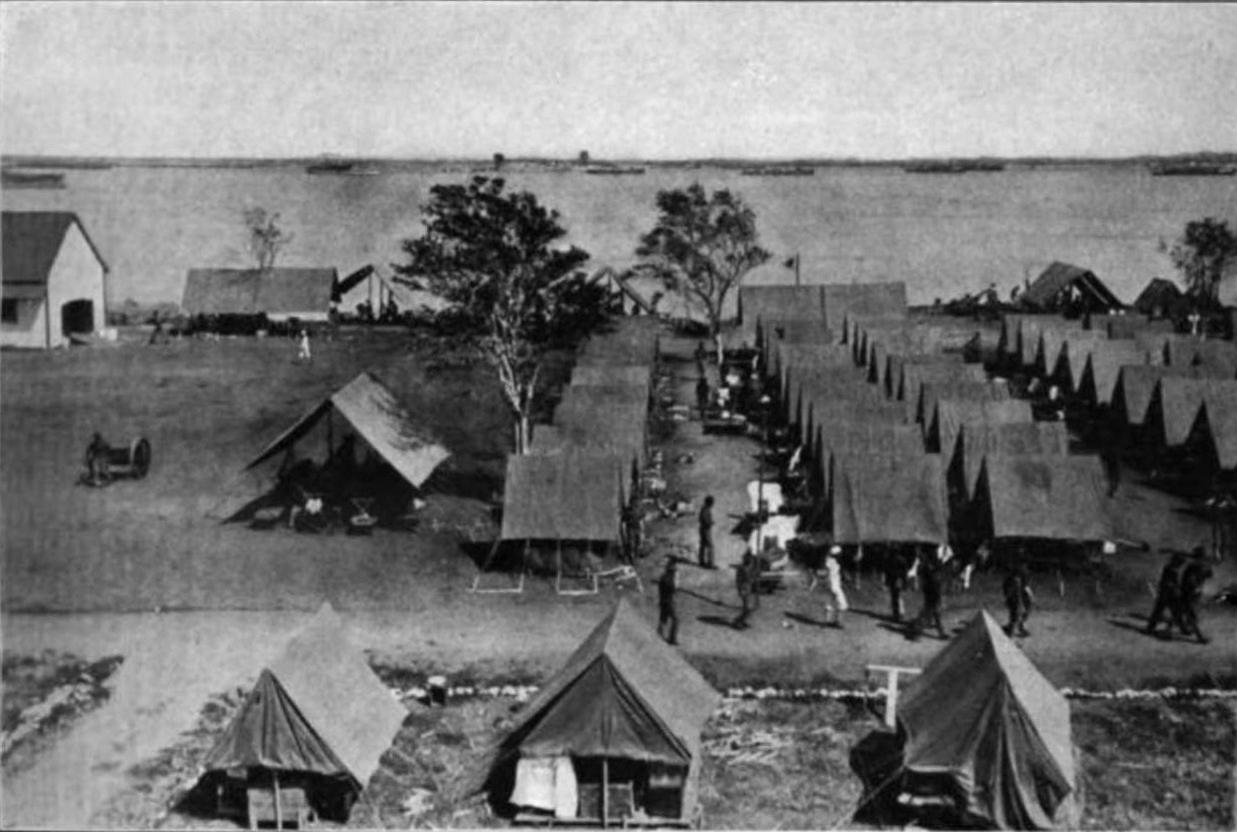 1916 photograph of Guantanamo Bay Naval Base. Originally accompanied by this image. Caption: "The Naval Base at Guantánamo ‧ By a treaty with Cuba that was signed in 1903, the United States secured a naval base with a fine land-locked harbor at Guantánamo, on the southern end of the island forty miles east of Santiago, for which it pays, $2000 annually. Here throughout the winter months the Atlantic Fleet is concentrated, engaged in fleet manœuvres and target practice. This is the nearest naval base to the Panama Canal on the Atlantic side, but is not an ideal location as it is open to attack by land. Admiral Knight urges a main base at Culebra, with Guantánamo as a secondary base."